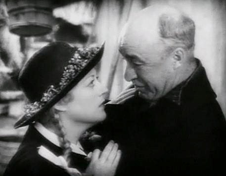 Marion Davies & J. Farrell MacDonald in Peg o' My Heart - trailer (cropped screenshot)